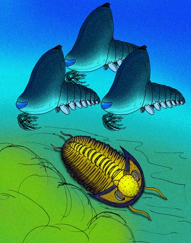 Reconstruction of the proetid trilobite, Proetus concinnus, of Wenlock Great Britain, in comparison with the thylacozoan crustacean Ainiktozoon loganense.